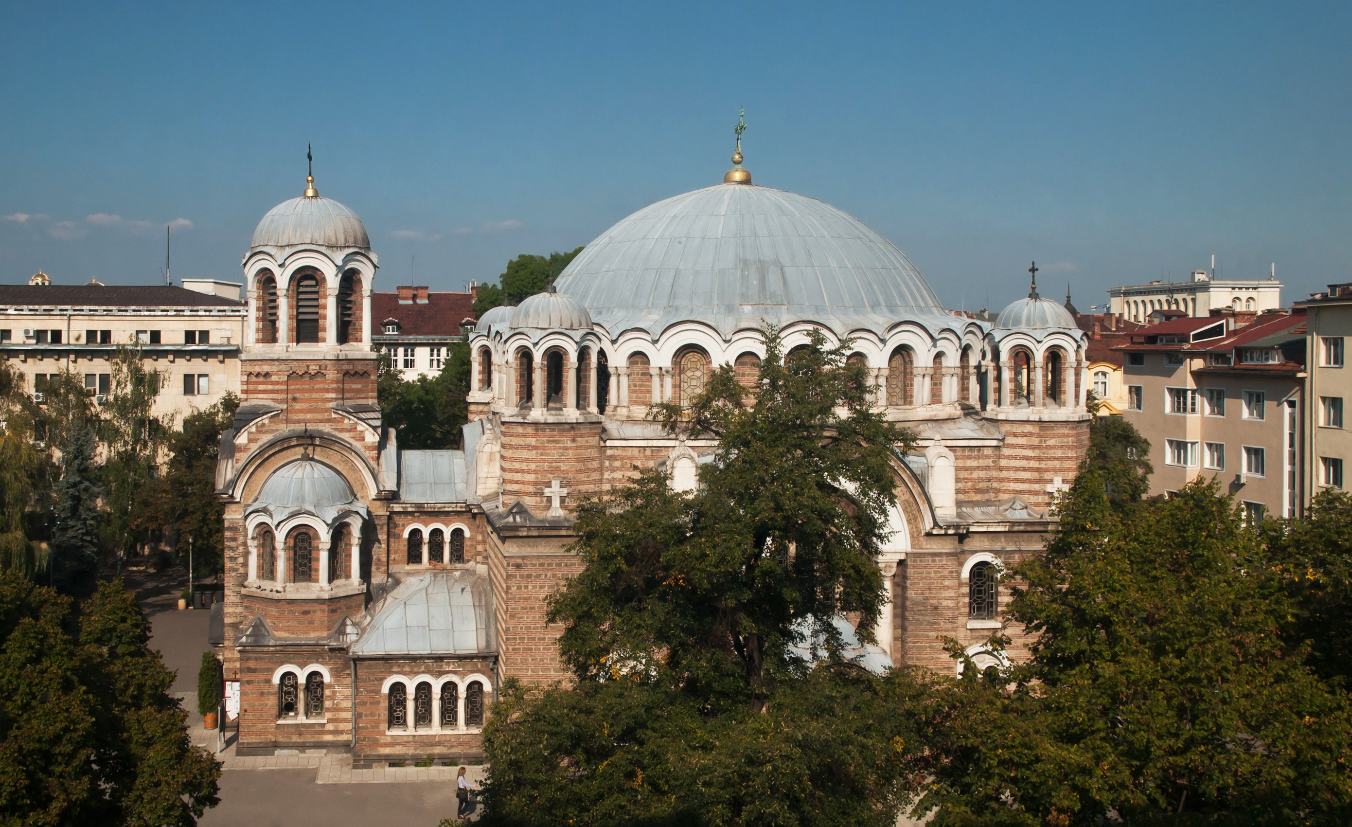 St Sedmochislenitsi Church in Sofia, Bulgaria.